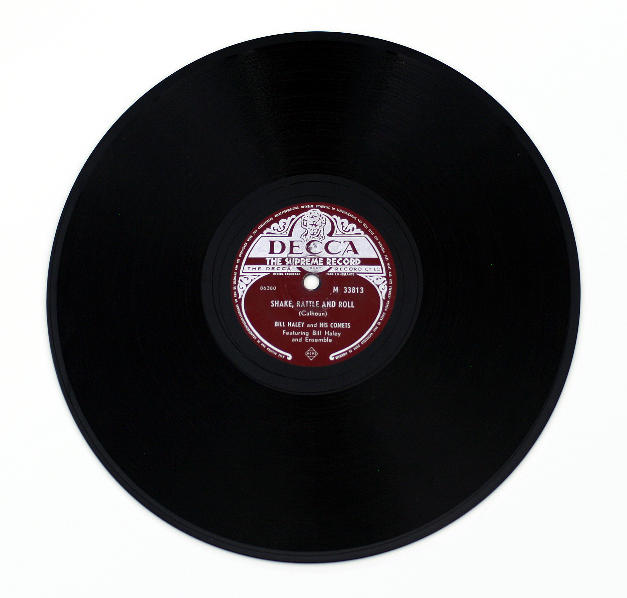 78 RPM Single, "Shake, Rattle And Roll" By Bill Haley and his Comets